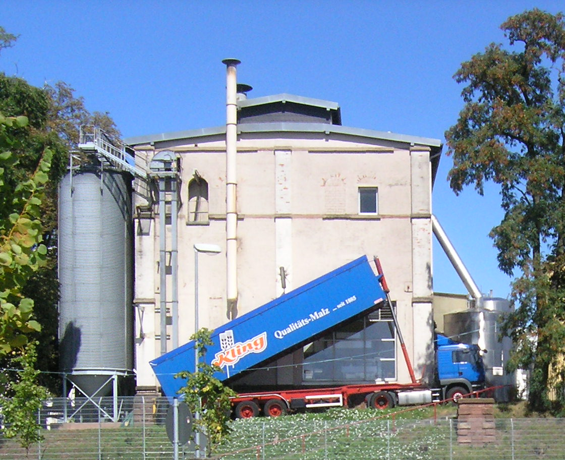 Delivery from a malthouse to a brewery